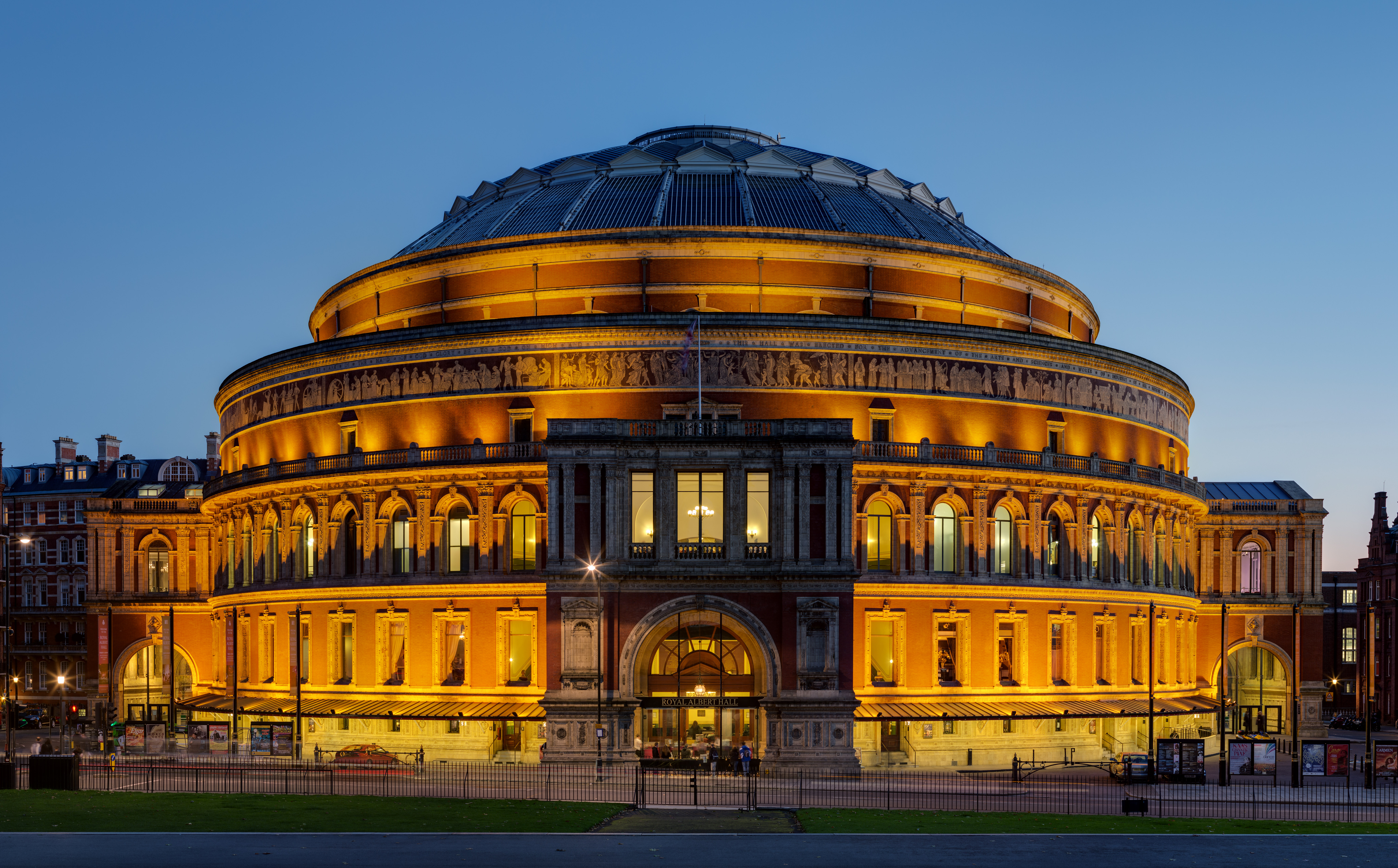 Royal Albert Hall, as viewed from the Albert Memorial in Kensington Gardens. This is a 36 segement stitch (3 rows x 4 columns x 3 bracketed exposures).